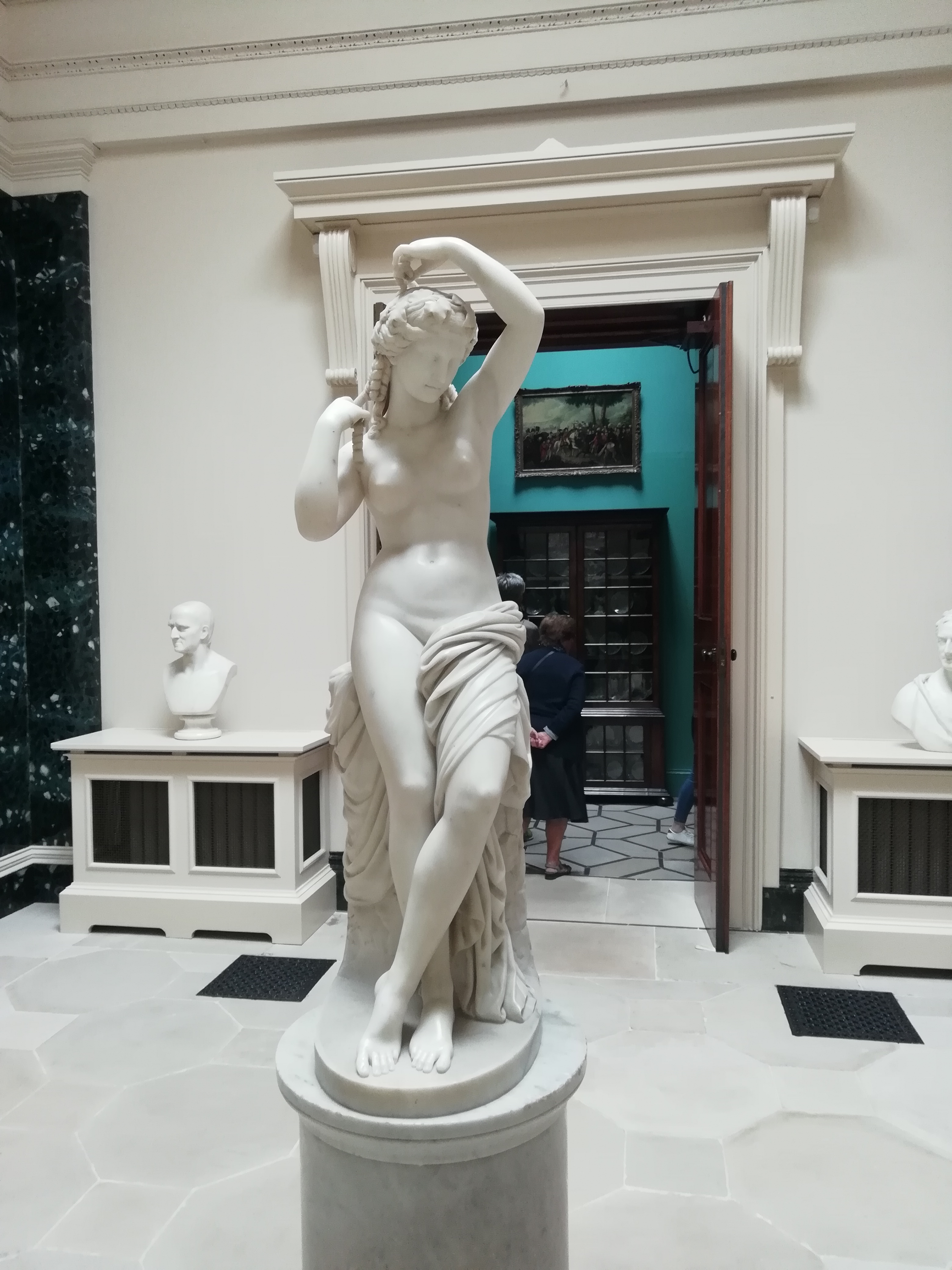 A photo of the sculpture "Bacchante at the Bath" created by Lawrence Macdonald in 1856, belonging to the National Trust and displayed at Mount Steward, photographed the 11 July 2018 by Emmanuelle Marie Claude Schade-Weskott.